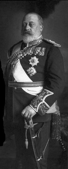 King Edward VII wears the sash and star of the Order of Saint Patrick and the star of the Order of the Bath